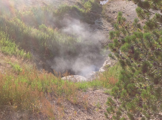 A fumarole in Yellowstone National Park